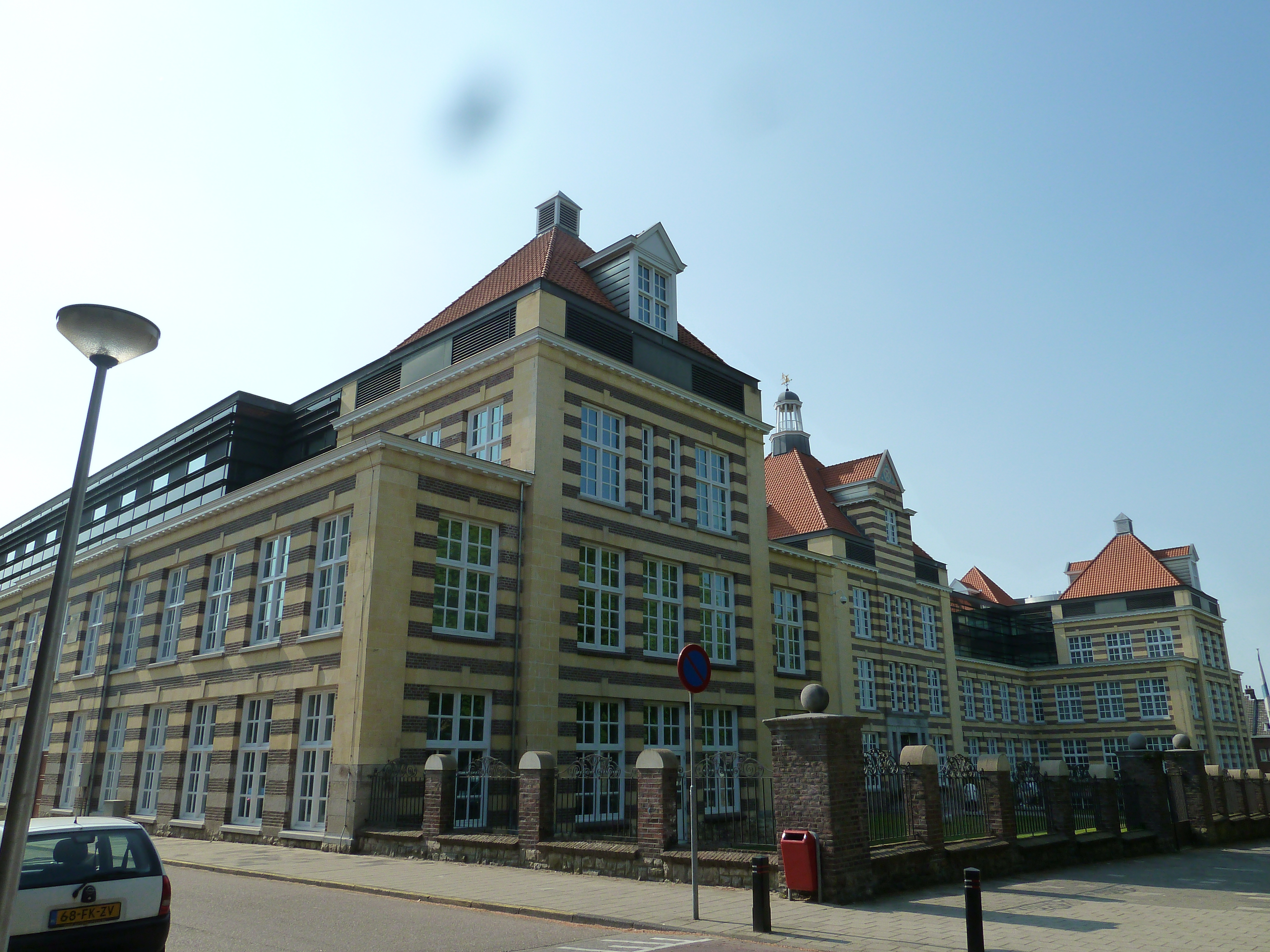 Ambachtsschool at the Burgemeester de Hesselleplein, Heerlen, Limburg, the Netherlands